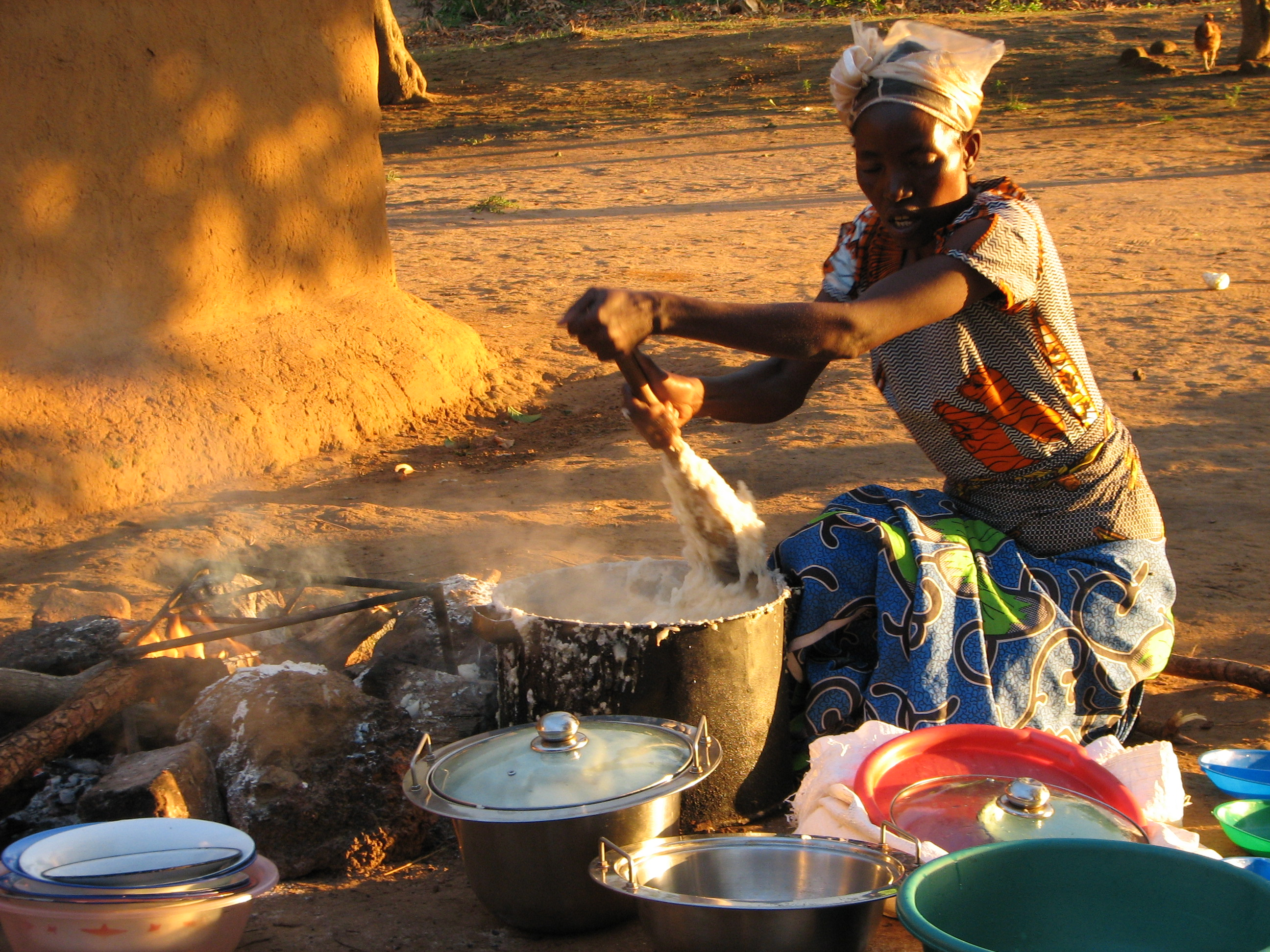 A lady is making mealie-meal (locally called nshima) next to her hut in Kasisi, Zambia in the late afternoon. This is an image of food from Zambia